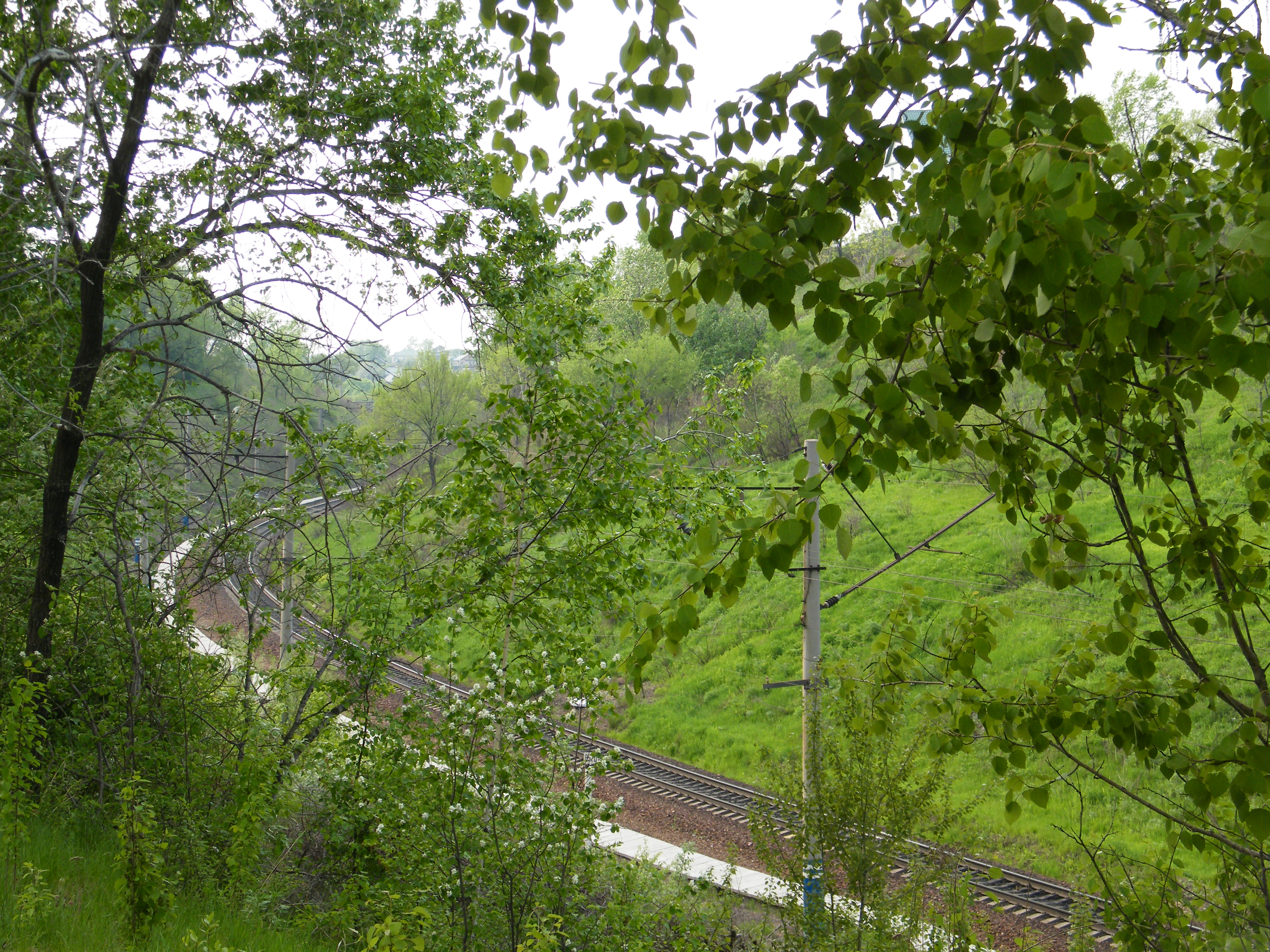 Путь к восточному (правобережному) порталу тоннеля под Амуром, Кировский район Хабаровска